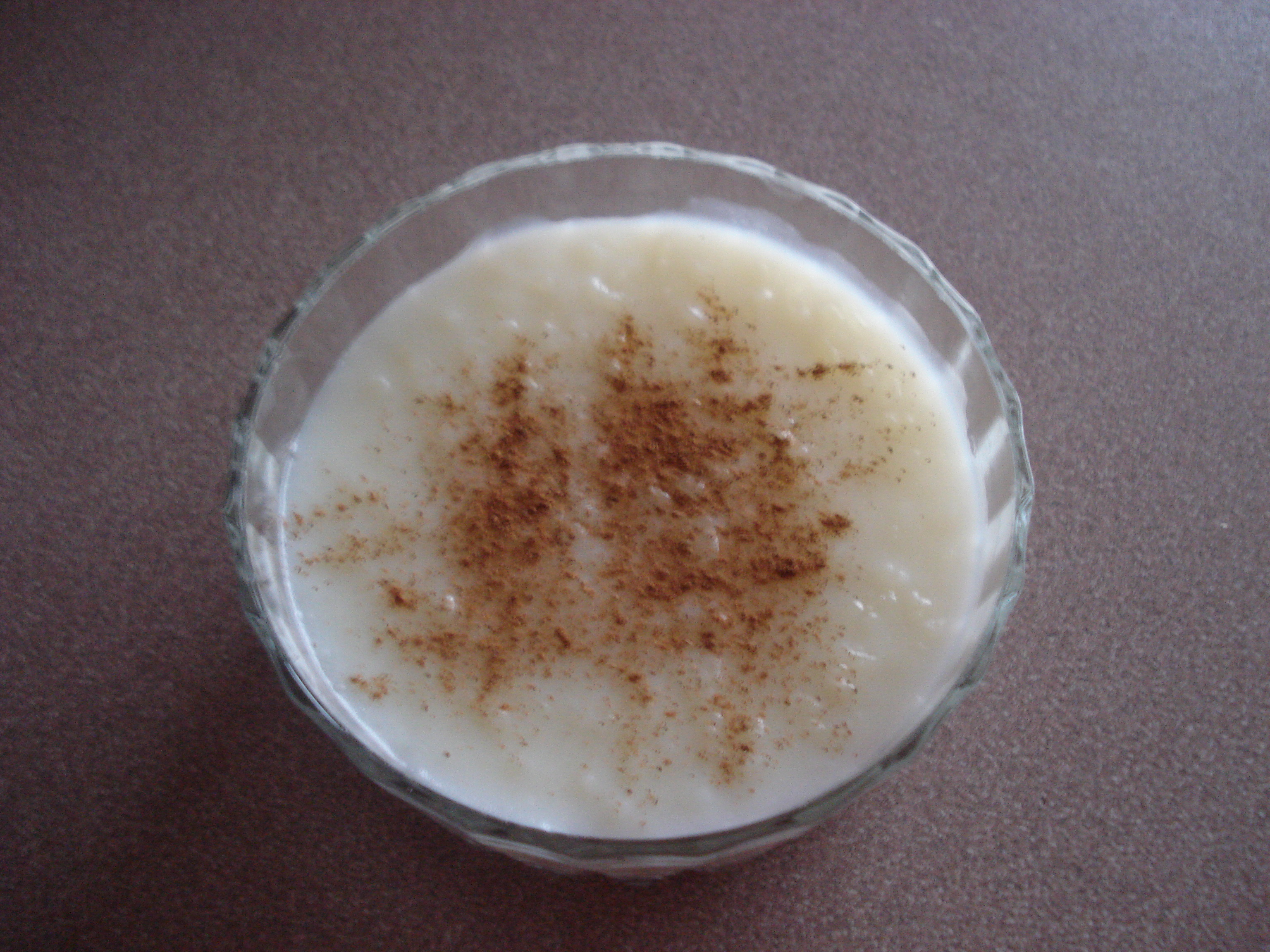 Sütlaç, a kind of milky dessert from Turkish cuisine